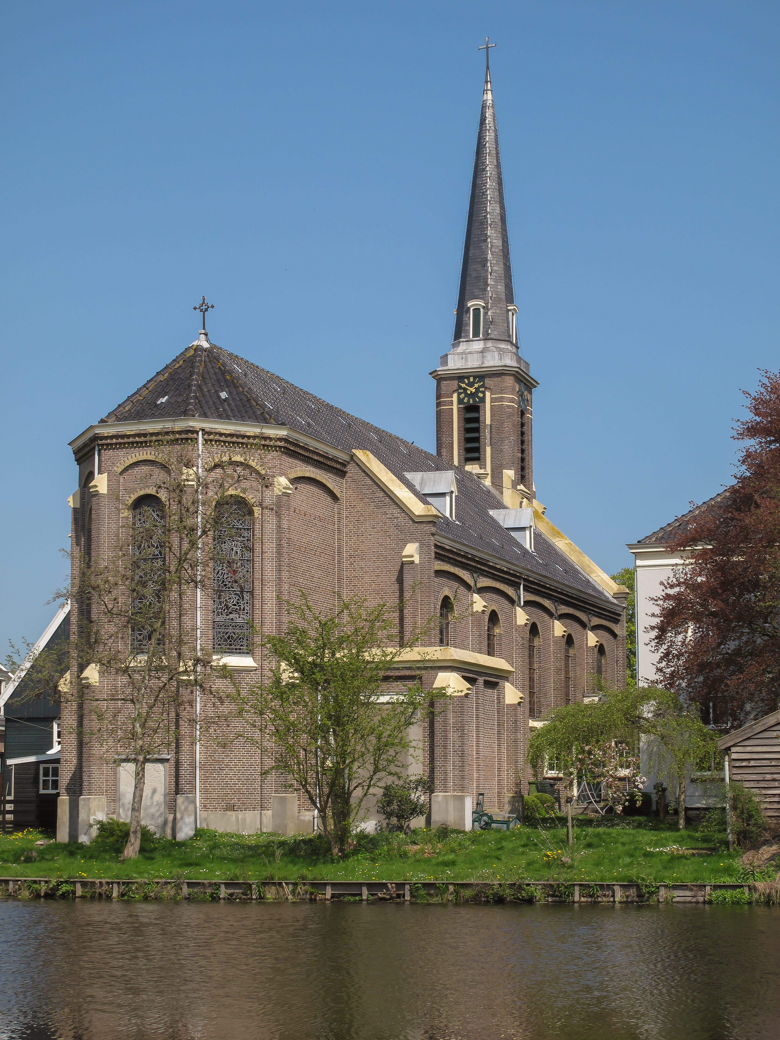 Ilpendam, church of Saint Sebastian